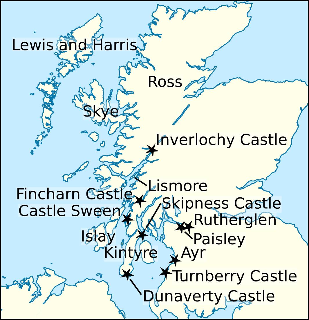 Map for the Wikipedia article concerning Alasdair Óg Mac Domhnaill, Lord of Islay (died 1299?).